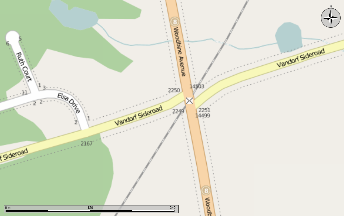 Map showing the location of the CNR bridge in Vandorf, Ontario. The railway bridge crosses Woodbine Avenue diagonally, and Vandorf Sideroad shows the slight gap between the two parts of the road.